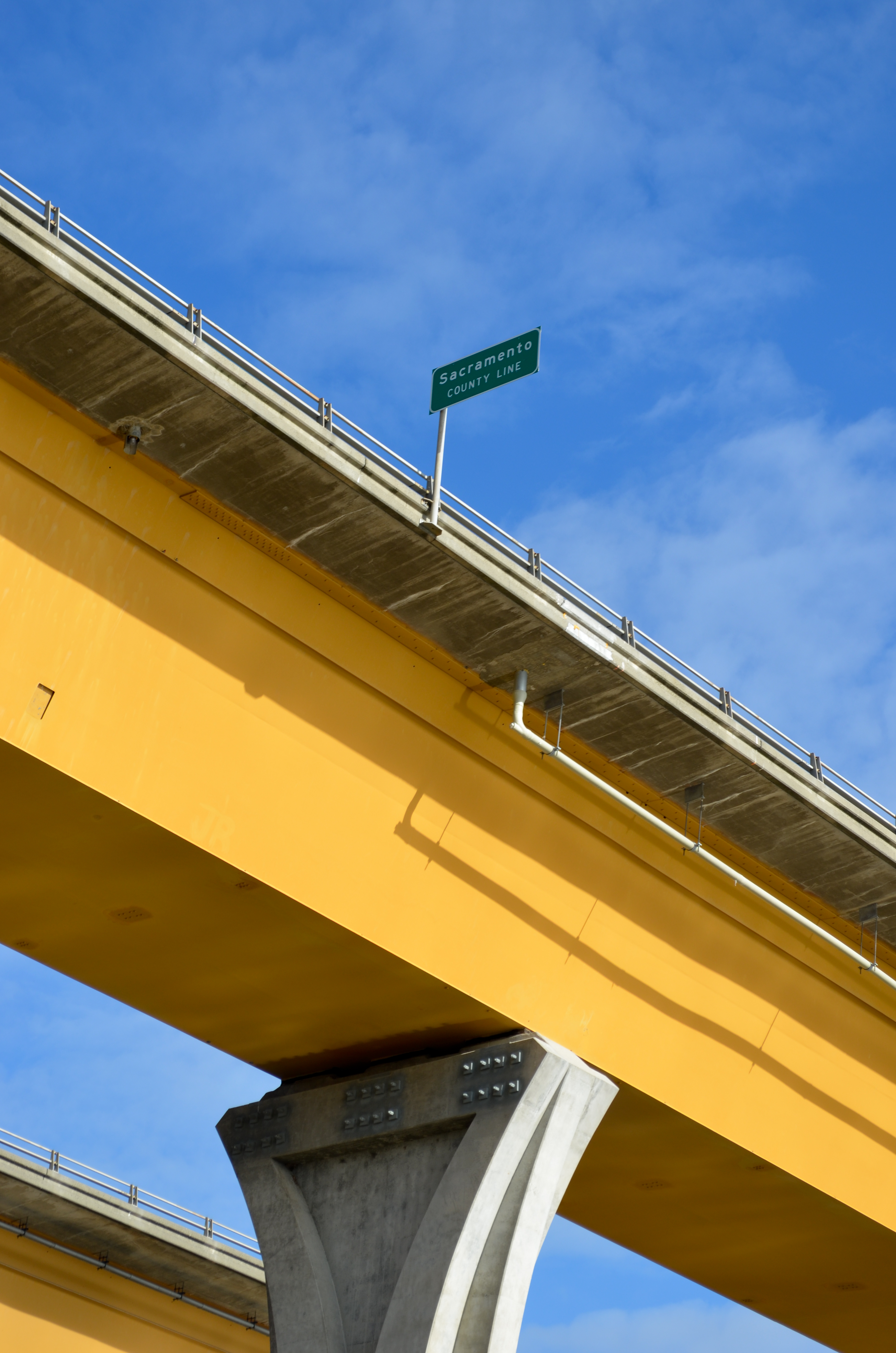 A sign marks the Sacramento County line on Interstate 5 Bridge over the Sacramento River near Sacramento, Calif., March 21, 2012. The U.S. Army Corps of Engineers Sacramento District provides safer river navigation by maintaining 54 wing dam buoys on the Sacramento River between its confluences with the Feather River to the north and the American River to the south. (U.S. Army photo by Todd Plain/Released)